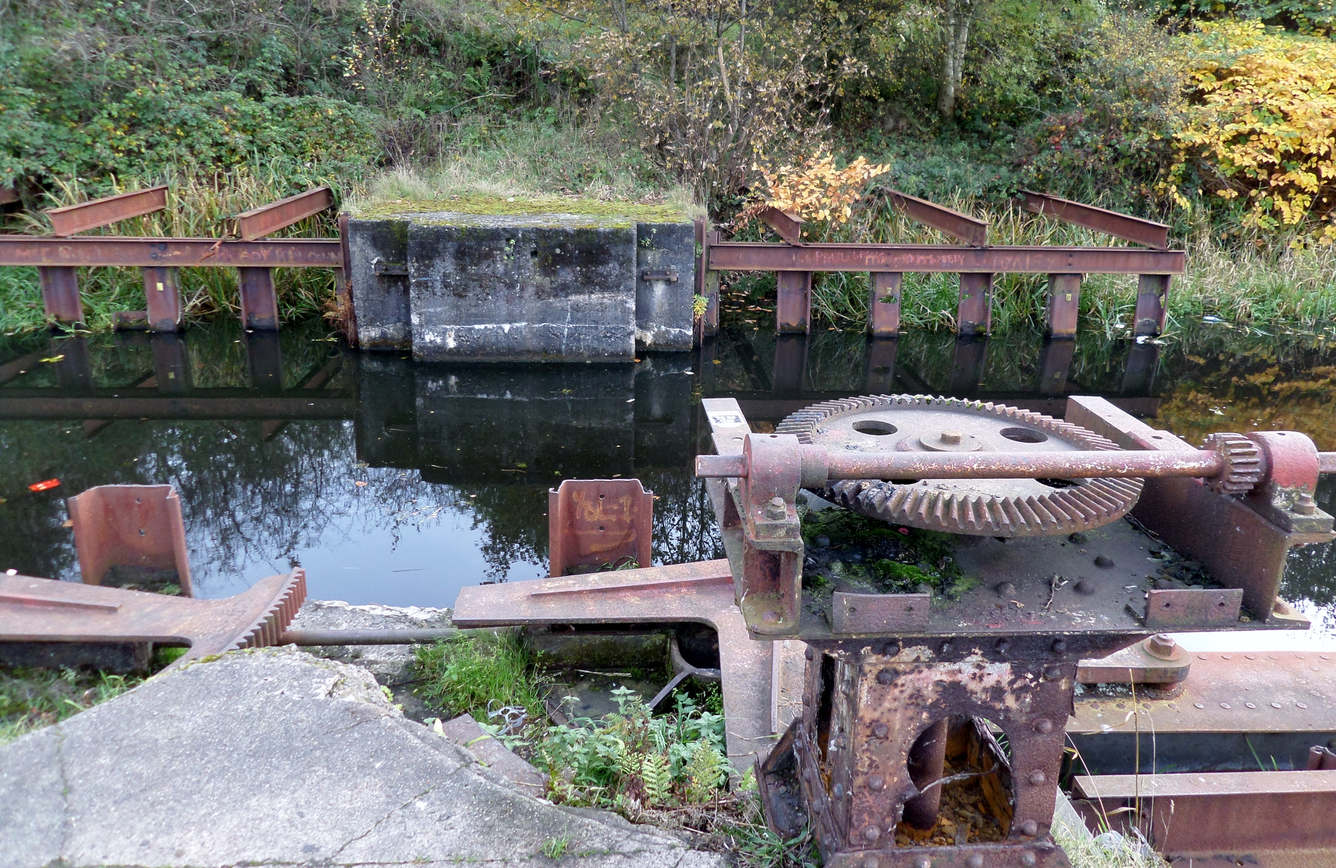 Stockingfield Junction 'Stop Gates', Forth and Clyde Canal, Glasgow, Scotland. WWII, installed in 1942 to prevent flooding.